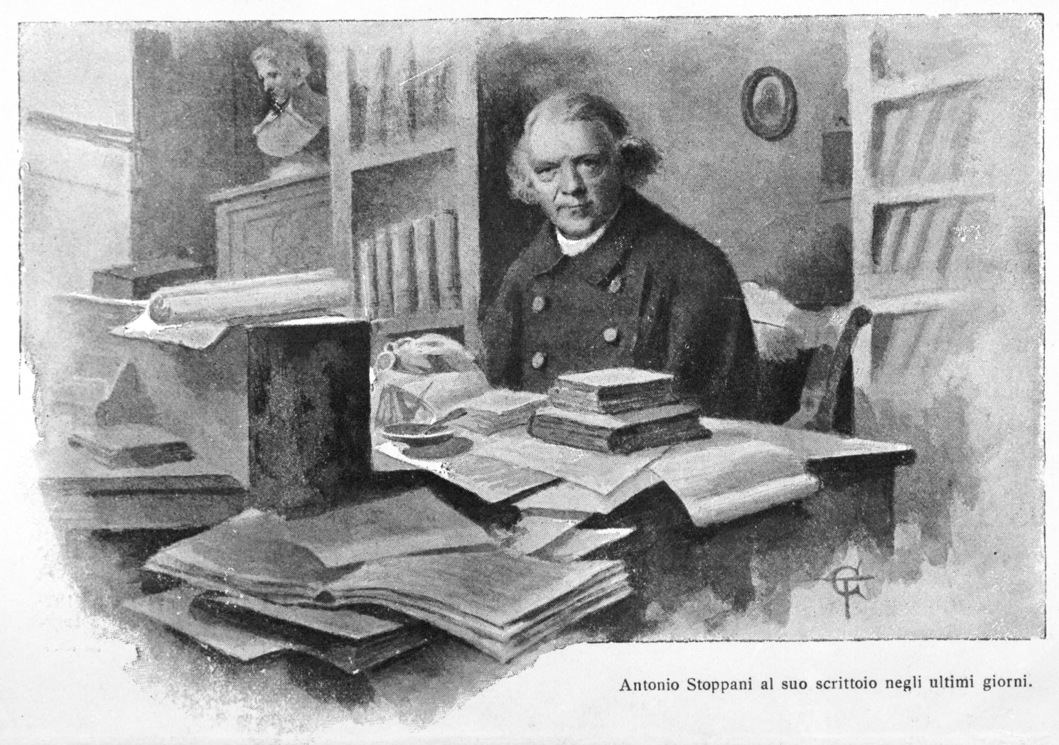 Antonio Stoppani in the last days of his life